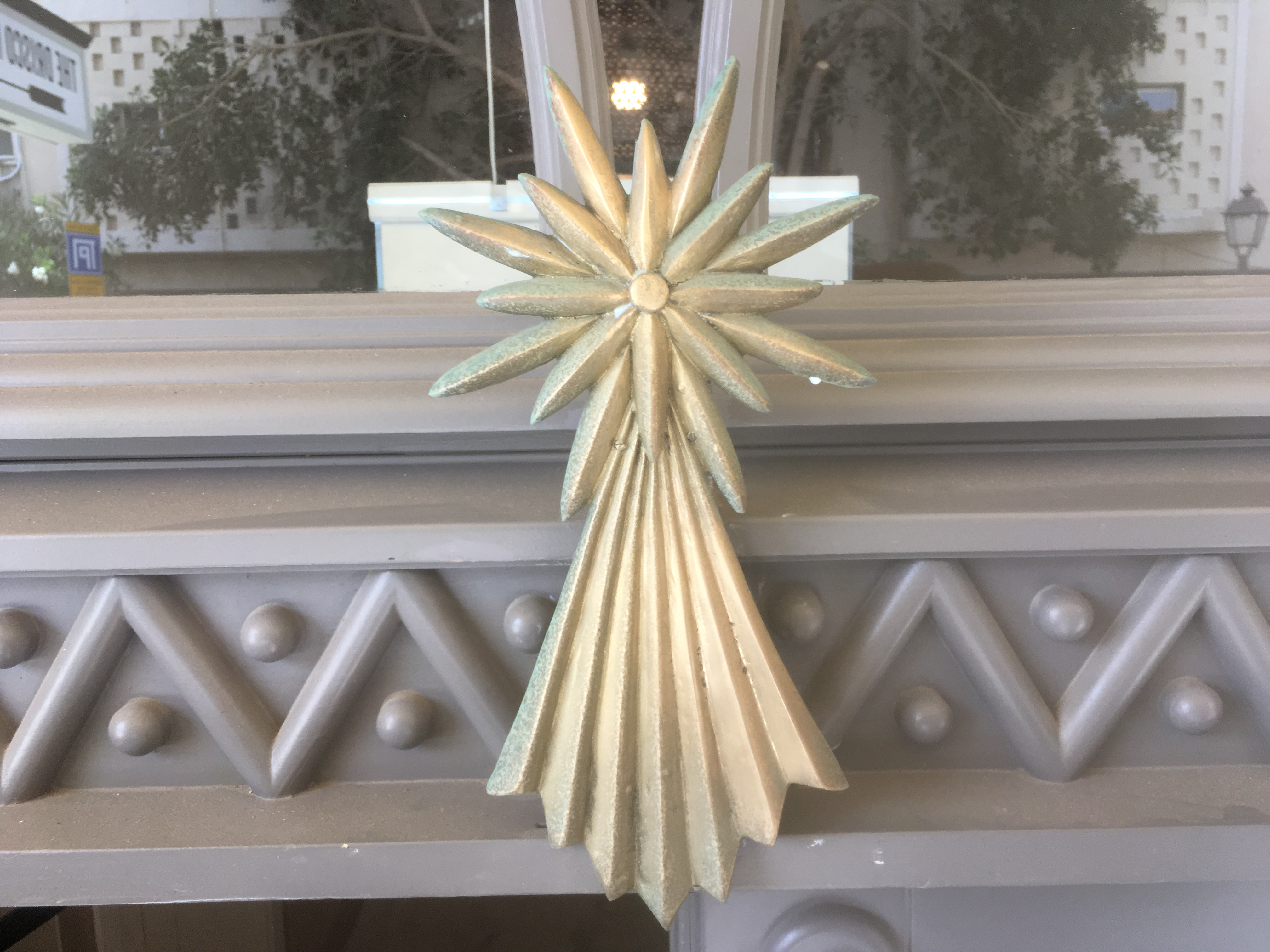 Jaffa, 6 Auerbach street - The Drisco Hotel (former Jerusalem Hotel), Bethlehem star shaped ornament on the entrance door.